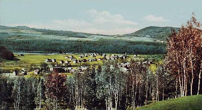 Franconia Village, NH and Sugar Hills; from a 1908 postcard.